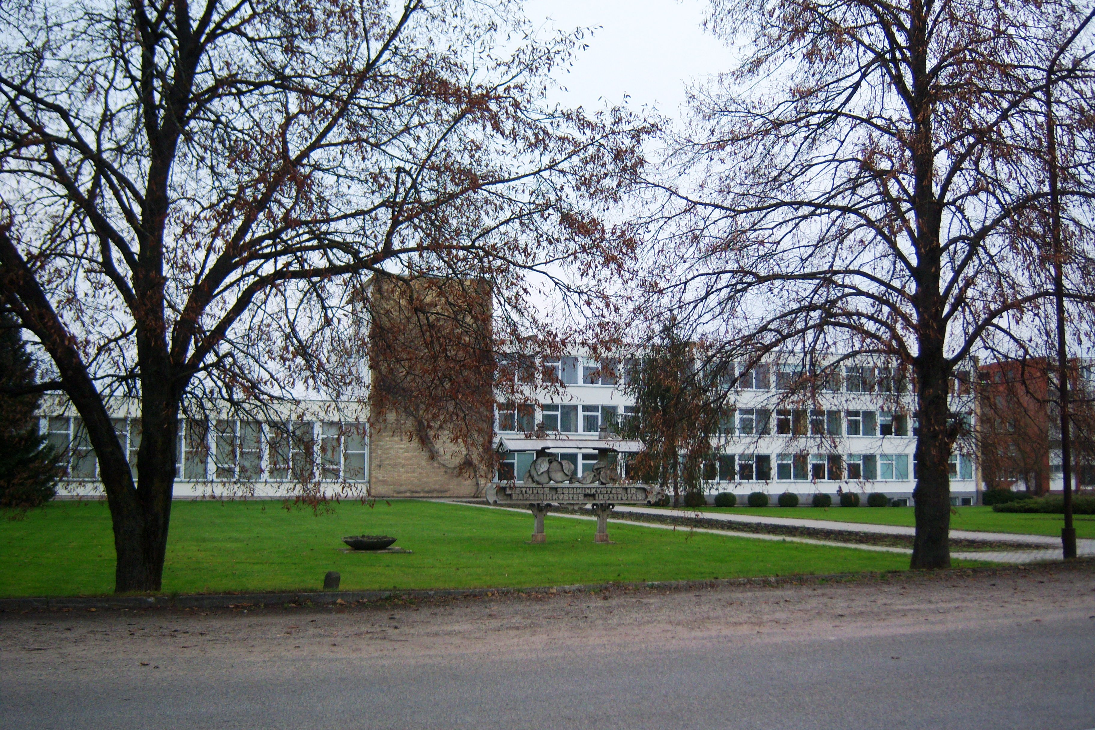 Lithuanian Institute of Horticulture, Babtai, Kaunas district